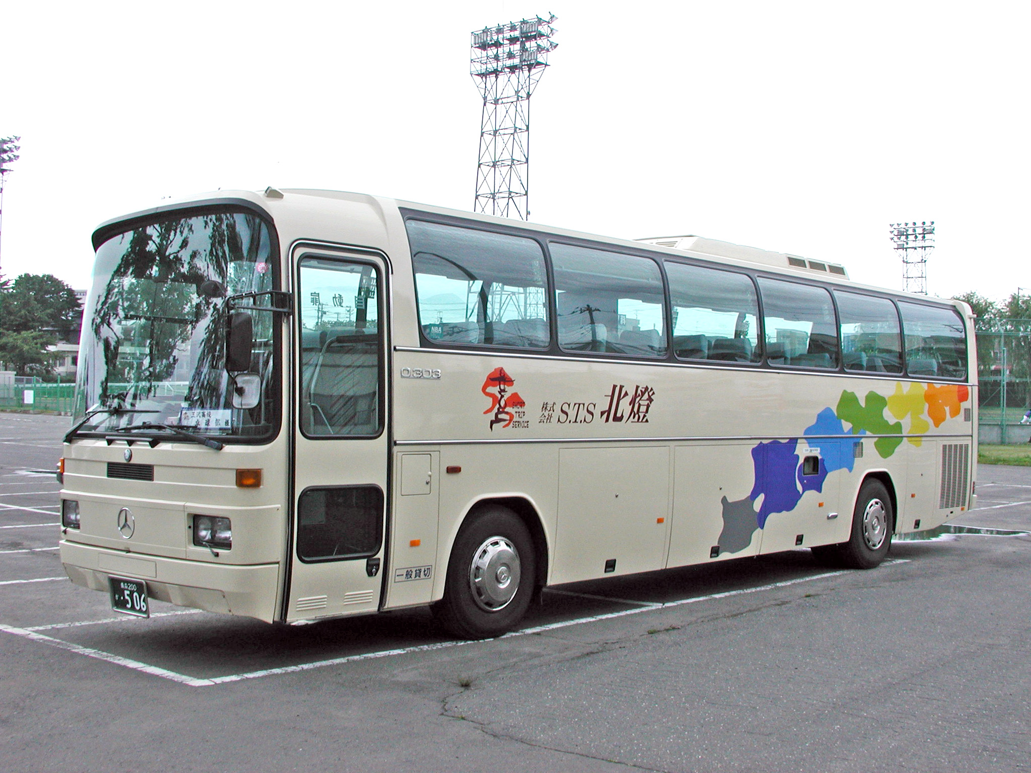 Mercedes-Benz O 303 RHD coach in Tōhoku region, Japan. STS-Hokuto operator.